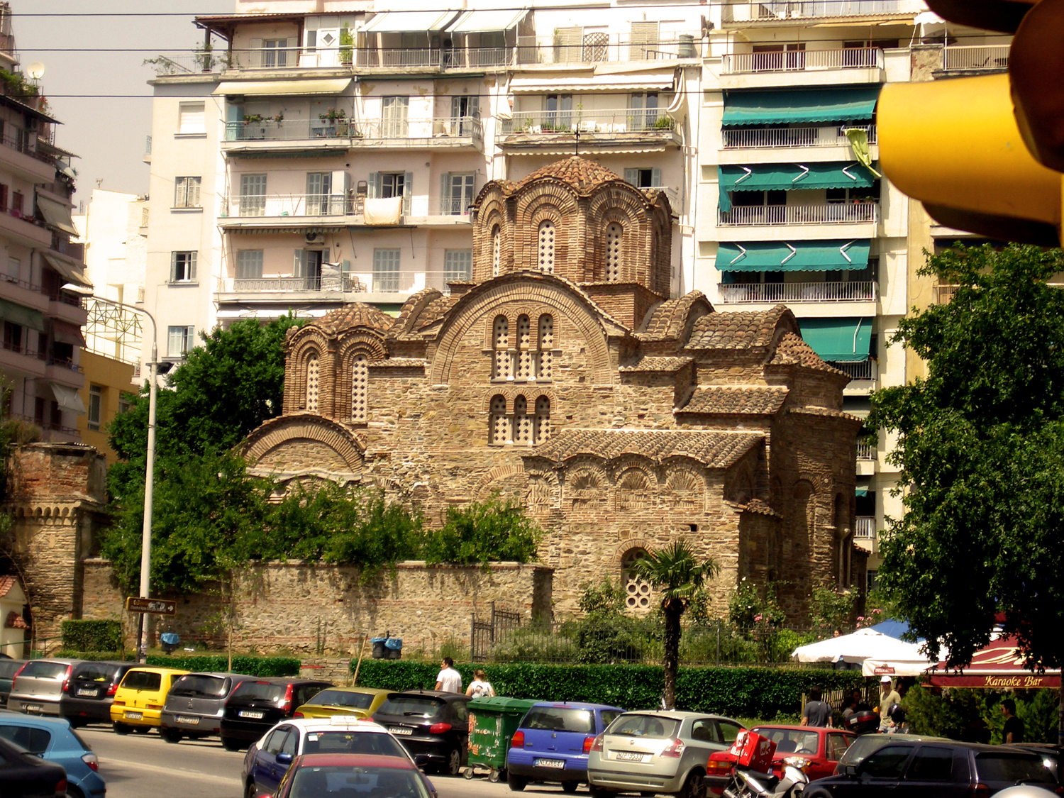 The Byzantine Church of Saint Panteleimon of the City, Thessaloniki